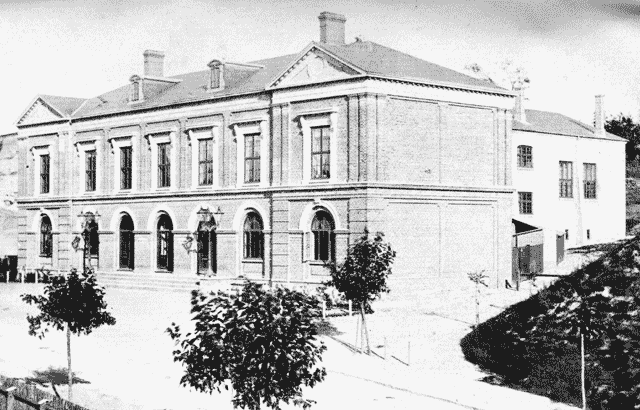 Building of Næstved Industrial Society, erected 1876-77 after a design from Vilhelm Tvede. Photo in the collections of Næstved Museum.